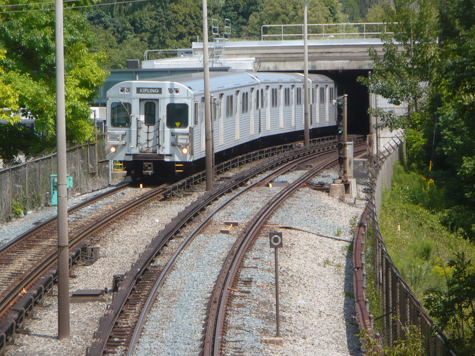 A westbound train departing Victoria Park subway station in Toronto